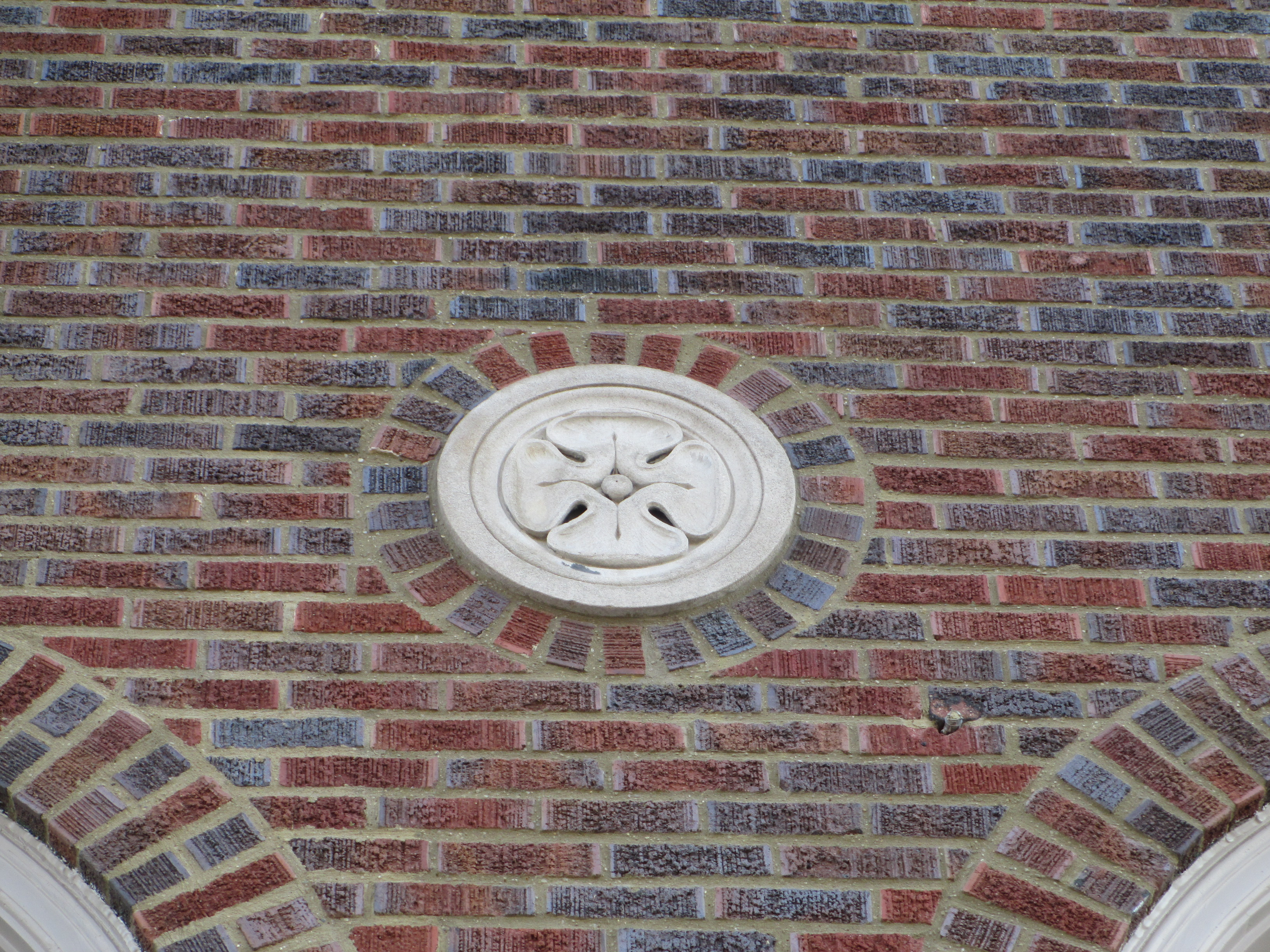 Detail on the East Main Street facade of the Franklin Hotel in Kent, Ohio